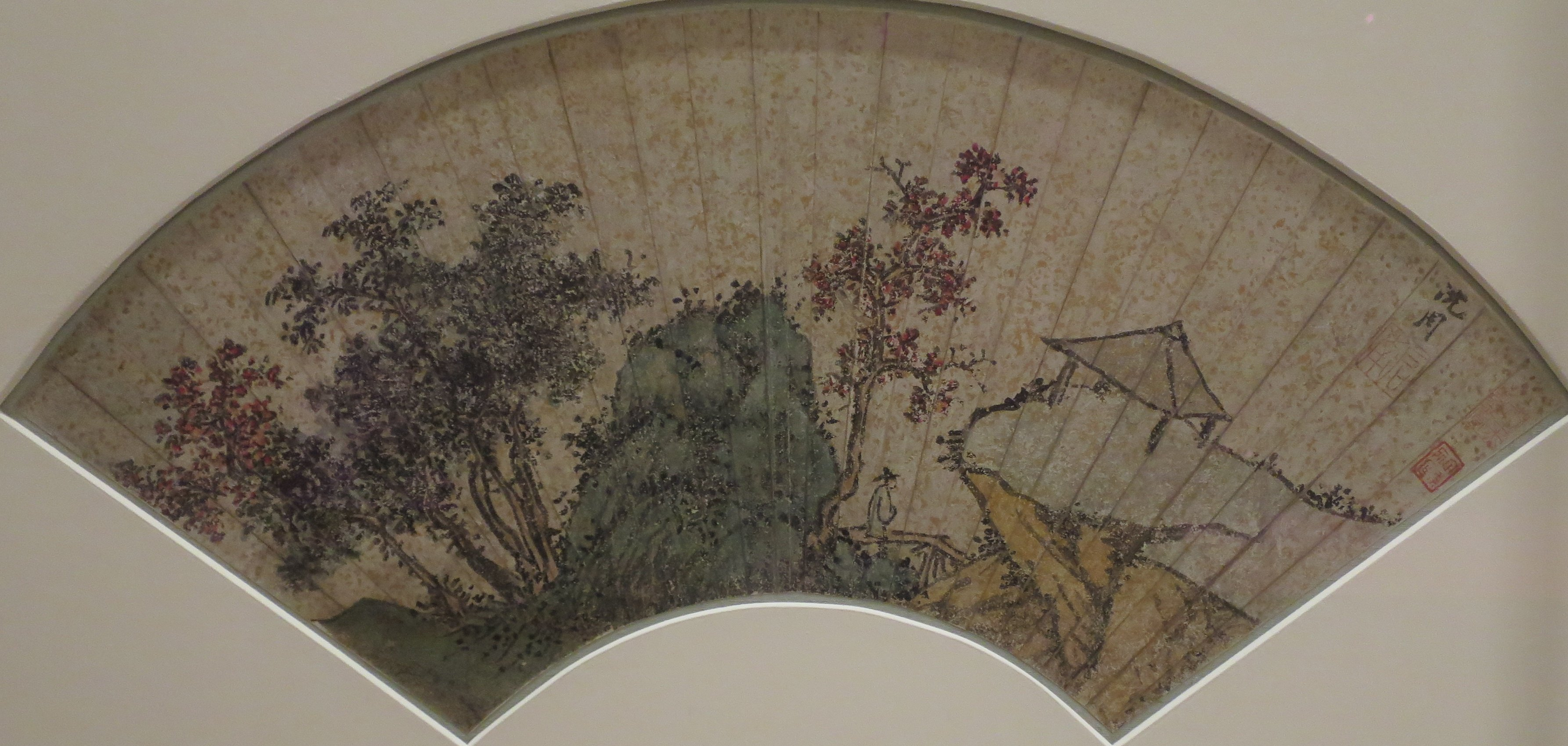 An Autumn Landscape, painting by Shen Zhou (Shen Chou, 1427-1509), Honolulu Museum of Art accession 9242.1